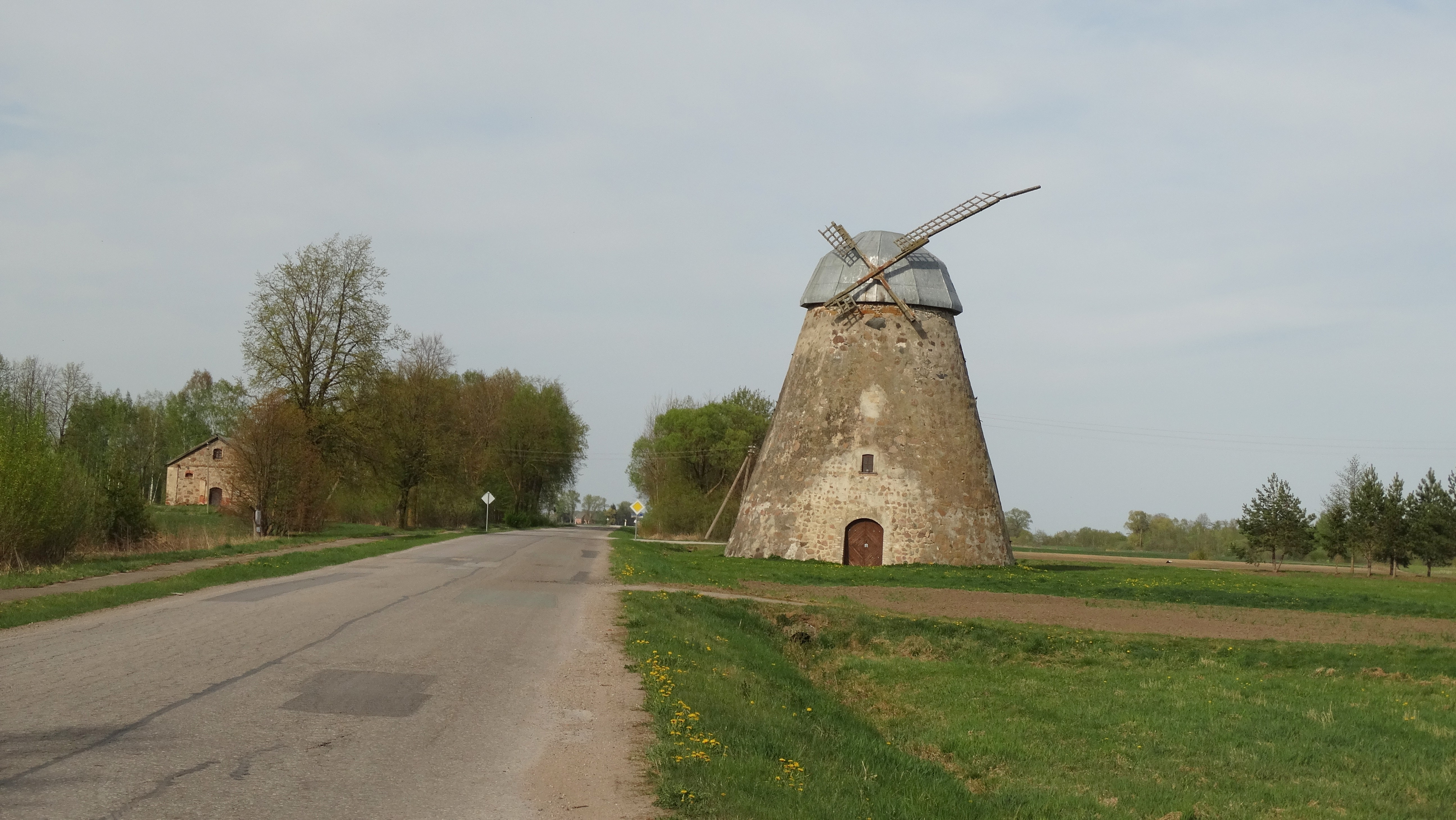 Windmill in Pašvitinys, Pakruojis District, Lithuania